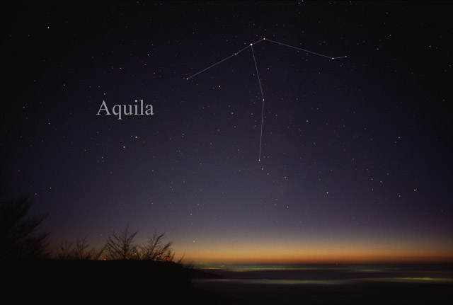 Photography of the constellation Aquila, the eagle